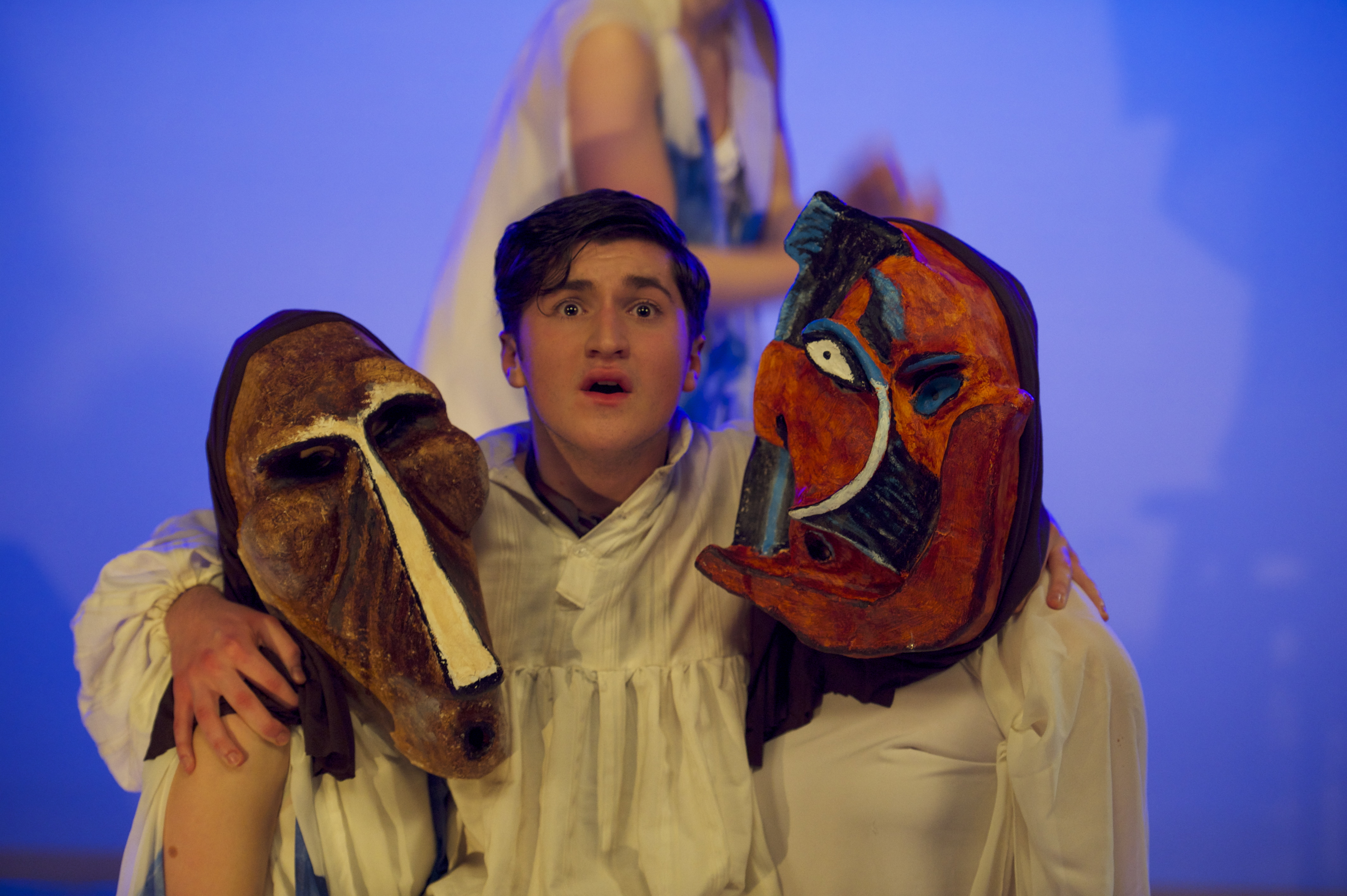 The Peculiar Tale of Pablo Picasso and the Mona Lisa, by Steven Green, performed by Fourth Monkey Theatre Company. To be used on the Fourth_Monkey_Theatre_Company page